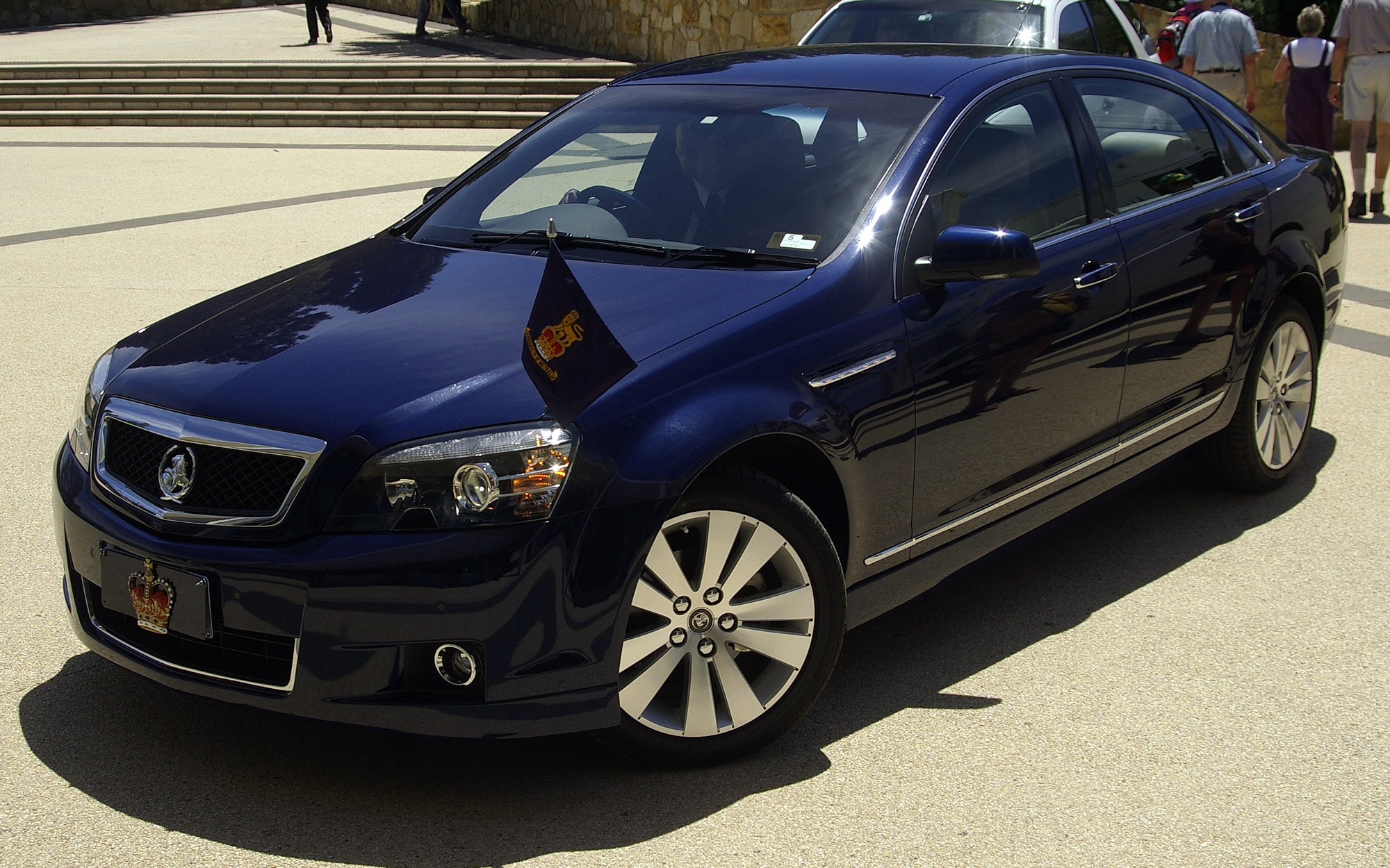 2006-2009 Holden WM Caprice sedan - Governor-General of Australia vehicle